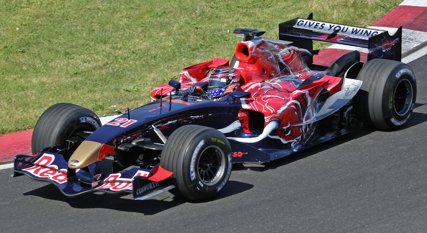 Scott Speed driving for Scuderia Toro Rosso at the 2006 Canadian Grand Prix.